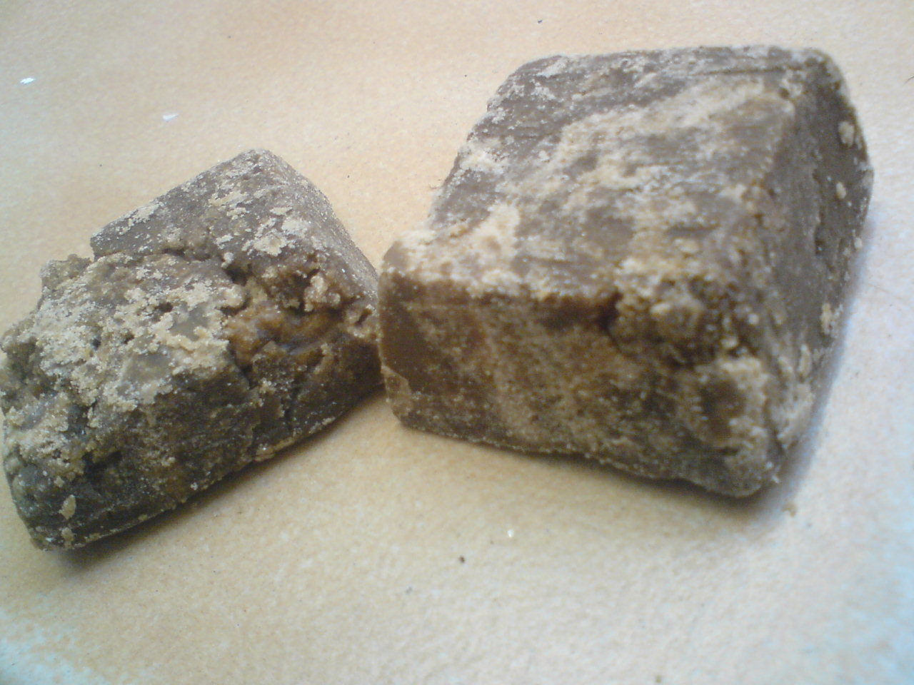 Brazilian panela from Rio Grande do Norte.